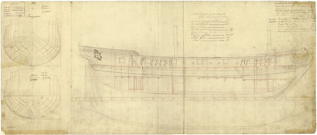 MERLIN 1744 lines This plan relates to the new-builds which originally hads the names of the ships they replaced - esp. the Rupert's Prize and Pembroke's Prize. Peregrina was launched as Merlin Galgo was launched as Swallow NMM, progress Book, volume 2, folio 542, states that 'Rupert Prize' was renamed 'Hind' per Admiralty Order dated April 1744. She was launched 19 April 1744, and fitted at Woolwich Dockyard between April and May 1744. The previous 'Rupert Prize' was sold in October 1743. NMM, Progress Book volume 2, folio 540, states that 'Pembroke Prize' was renamed per Admiralty Order 'Vulture' on 18 April 1744. She was launched in May 1744, and surveyed afloat and refitted at Plymouth Dockyard, October-November 1744. The previous 'Pembroke Prize' was sold 13 March 1743.